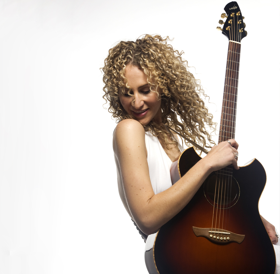 Songwriter-Painter Summer Virshup with one of her Wechter Pathmaker Guitars